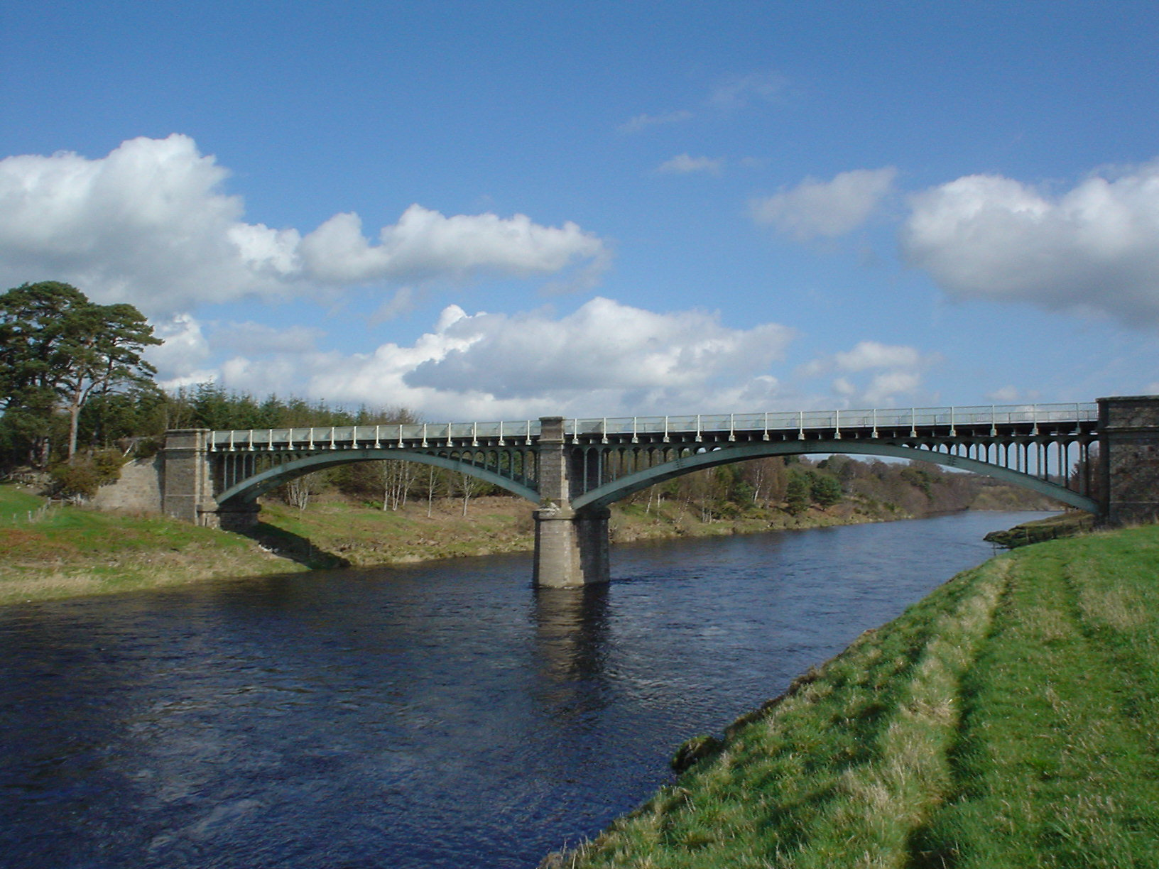 Brigde across the River Dee, Aberdeenshire at Drumoak, Scotland.